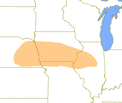 Area of the United States where the local accent is closest to General American